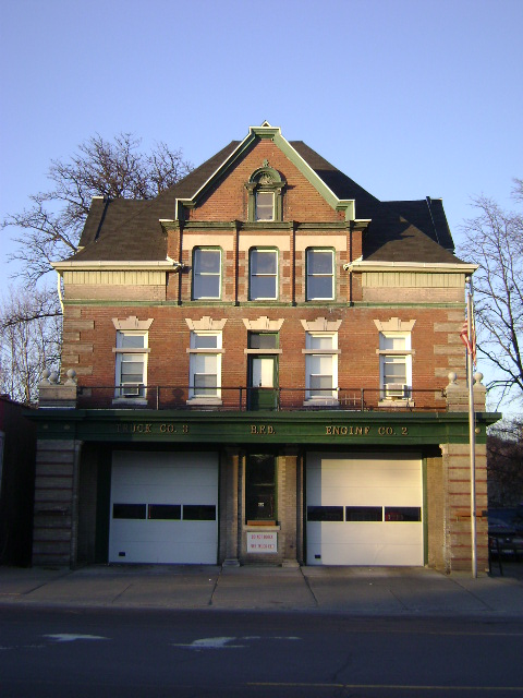 Binghamton Westside Fire House — housing Truck 3 and Engine 2. In the Westside district of Binghamton, in Broome County, New York.